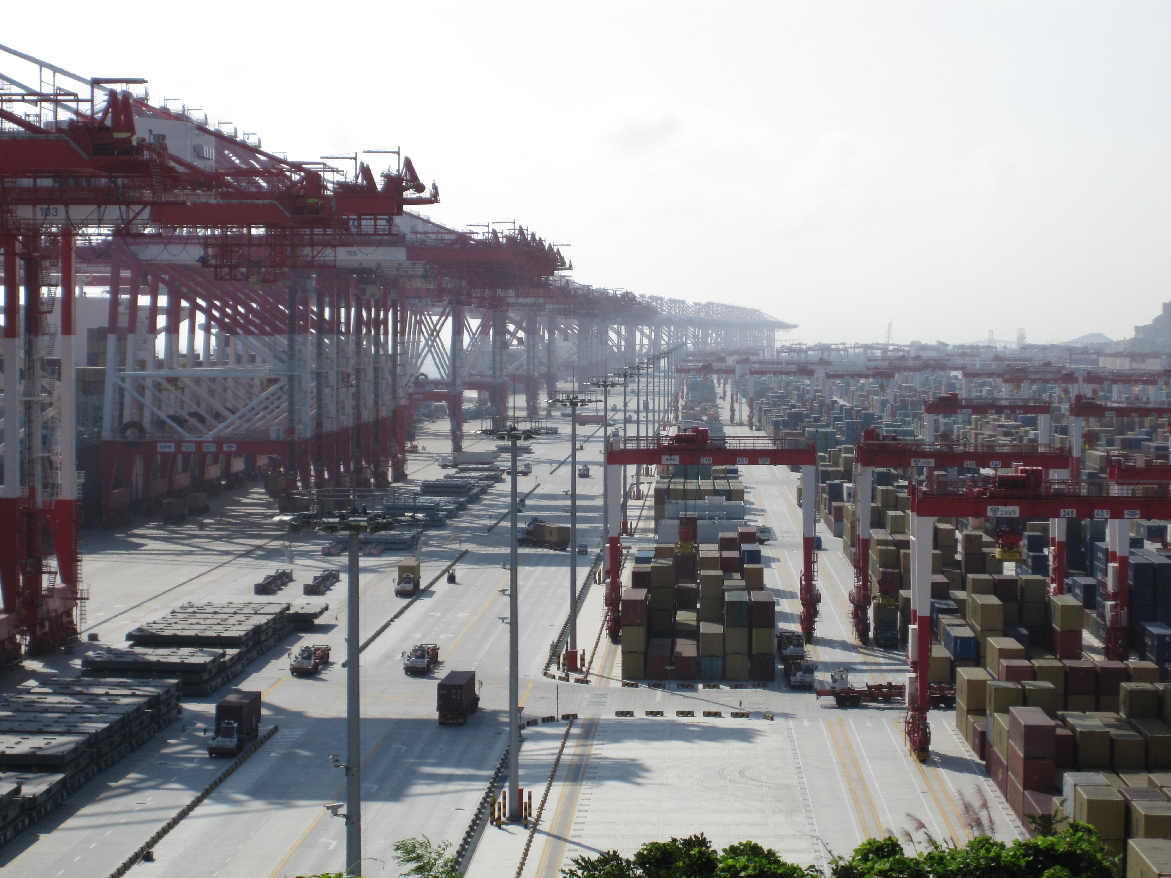 Containers and cranes. I, Reb42 (talk), created this work entirely by myself.